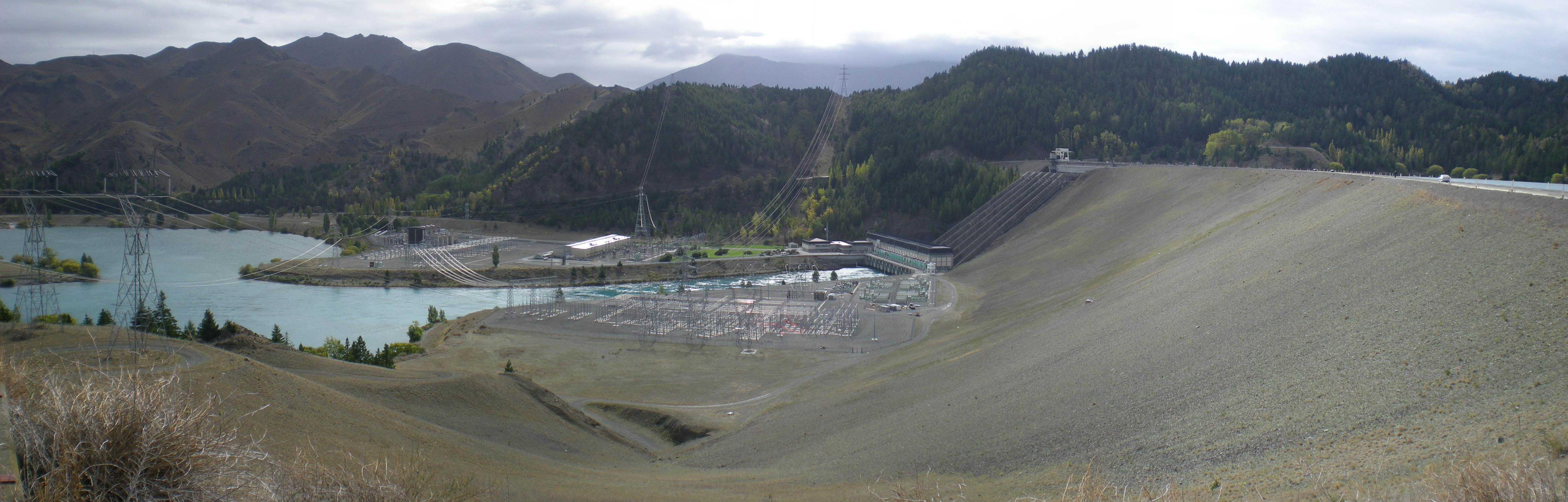 Panorama of Benmore Dam, in Canterbury, New Zealand.